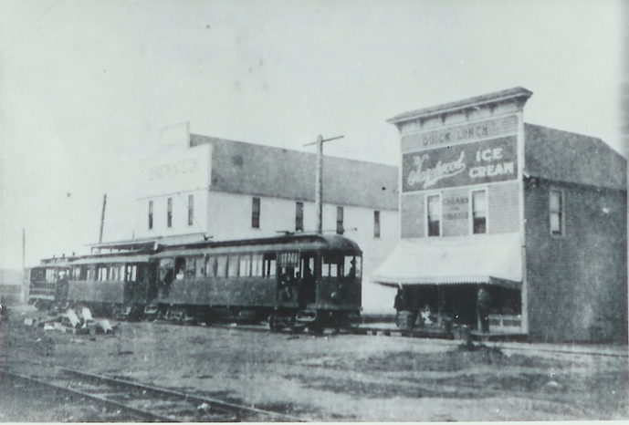 The first electric trolley line in St. Johns on Jersey (Lombard) street in front of Bickner's Hall.